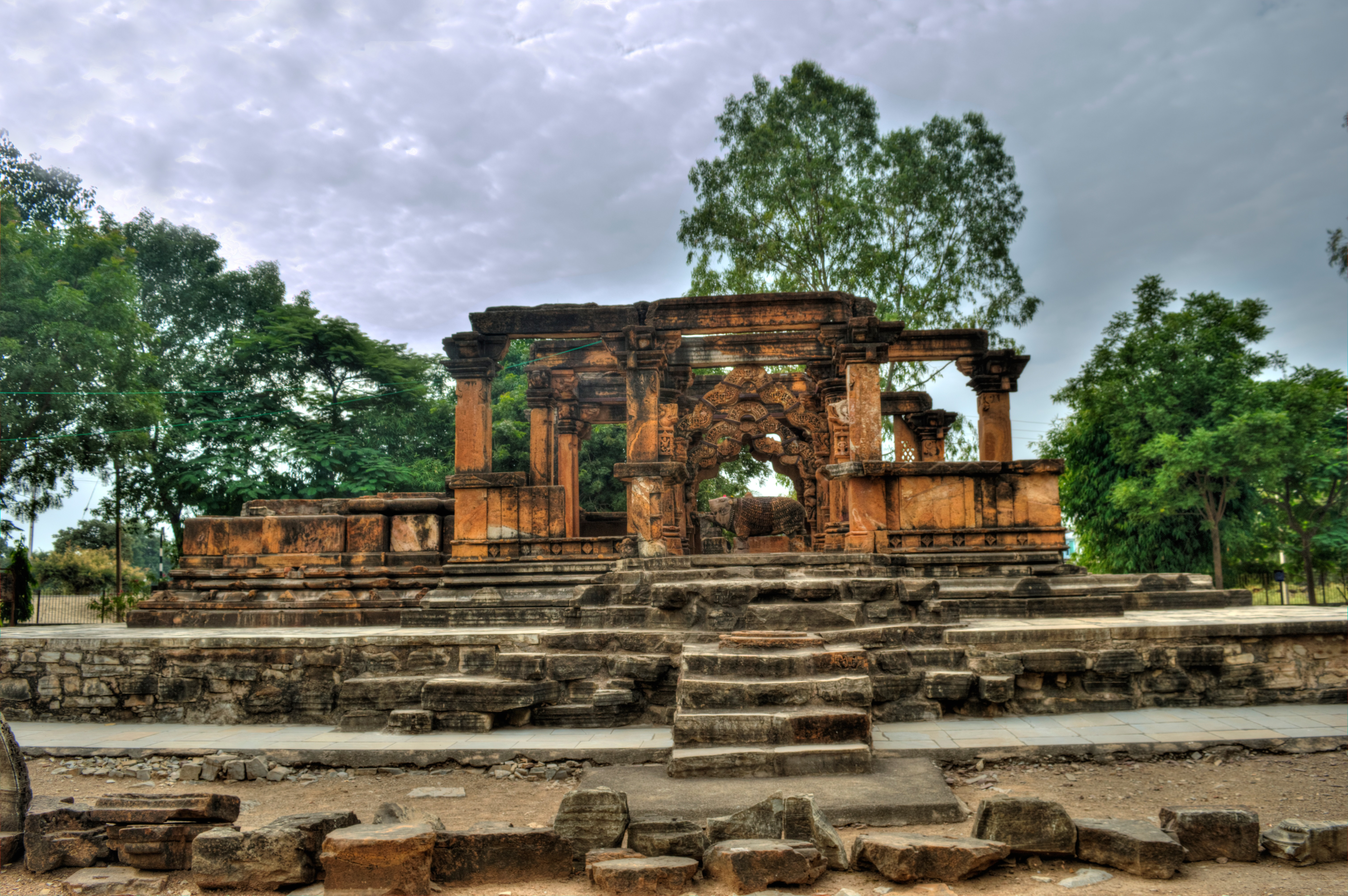 Nava Toran temple at village Khor,Neemuch near Vikram Cement campus is an important remnant of an eleventh-century (11th) temple.There is a statue of Varaha at the centre of the temple.